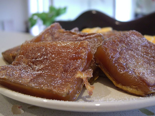 Guangdong Nian gow Year cake Bân-lâm-gú: Kńg-tang ê tinn-kué. 廣東的甜粿